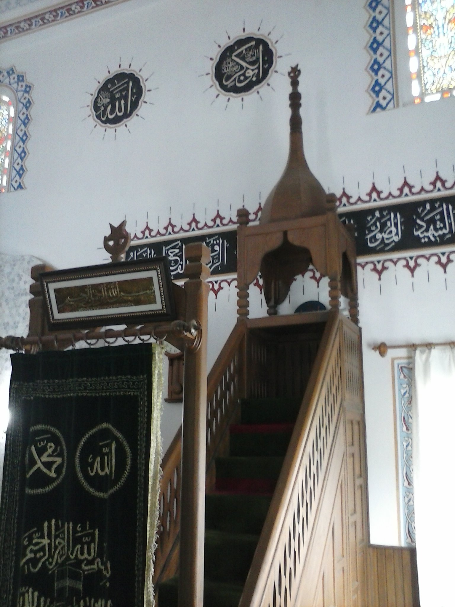 Dakka in mosque in Alanya, Turkey